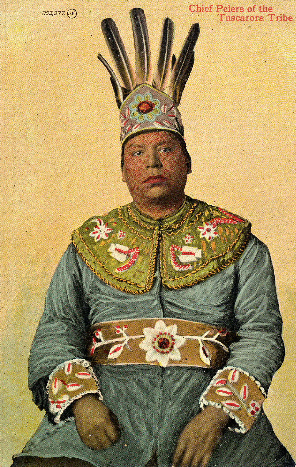 Postcard image of Casper Peters of the Tuscarora Tribe.